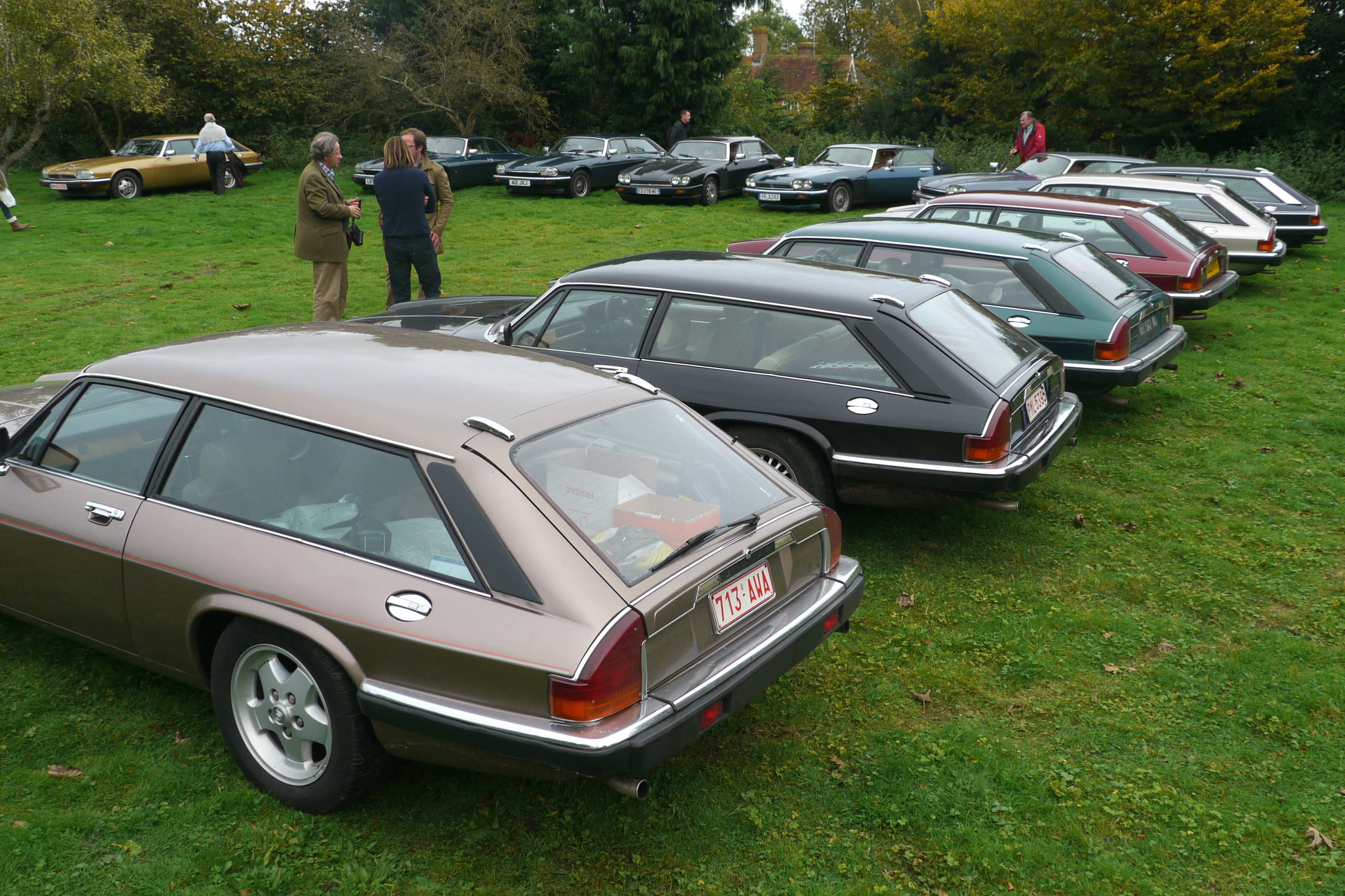 Lynx Eventer Meeting St. Leonards on the Sea October 2012